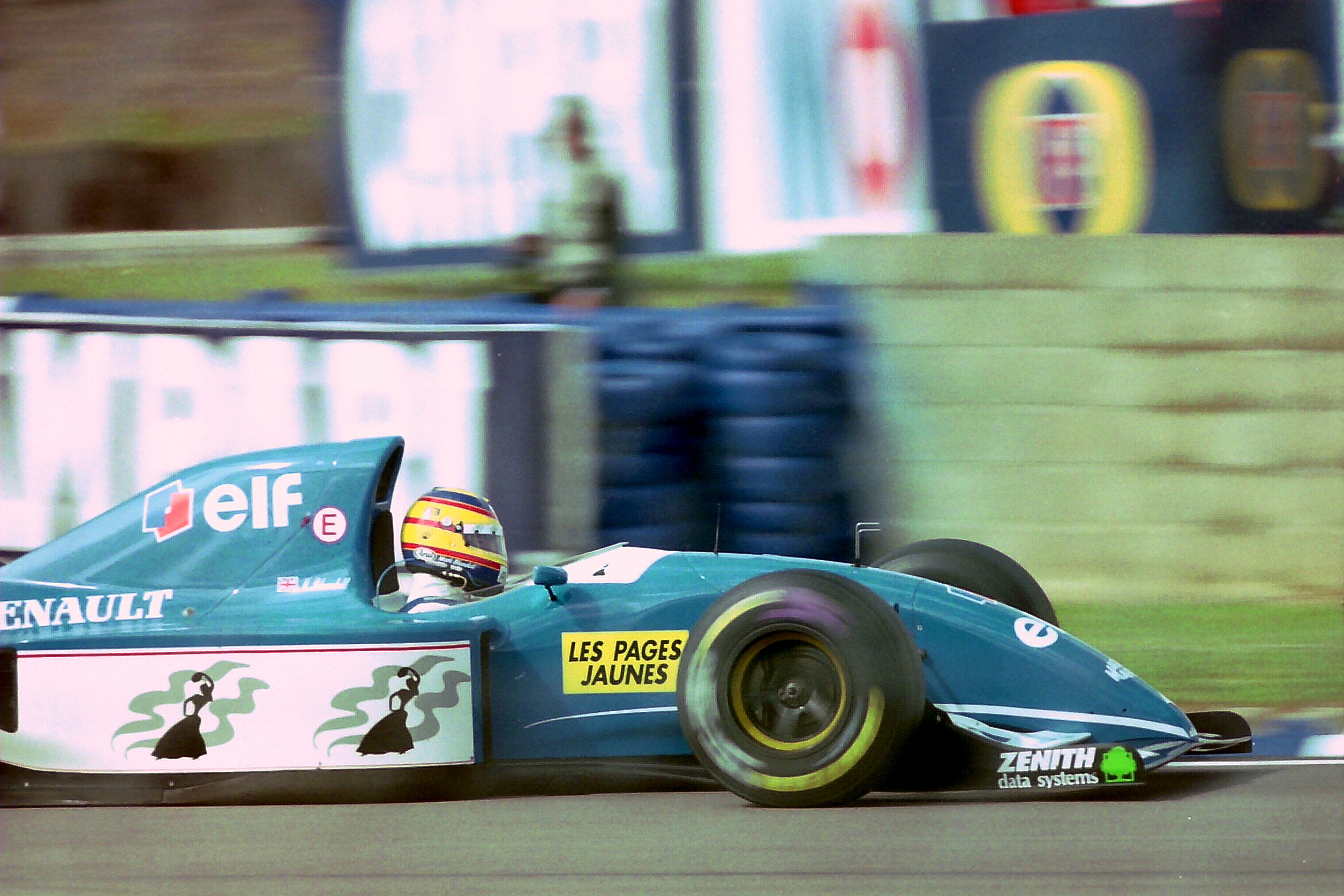 Mark Blundell - Ligier JS39 during practice for the 1993 British Grand Prix